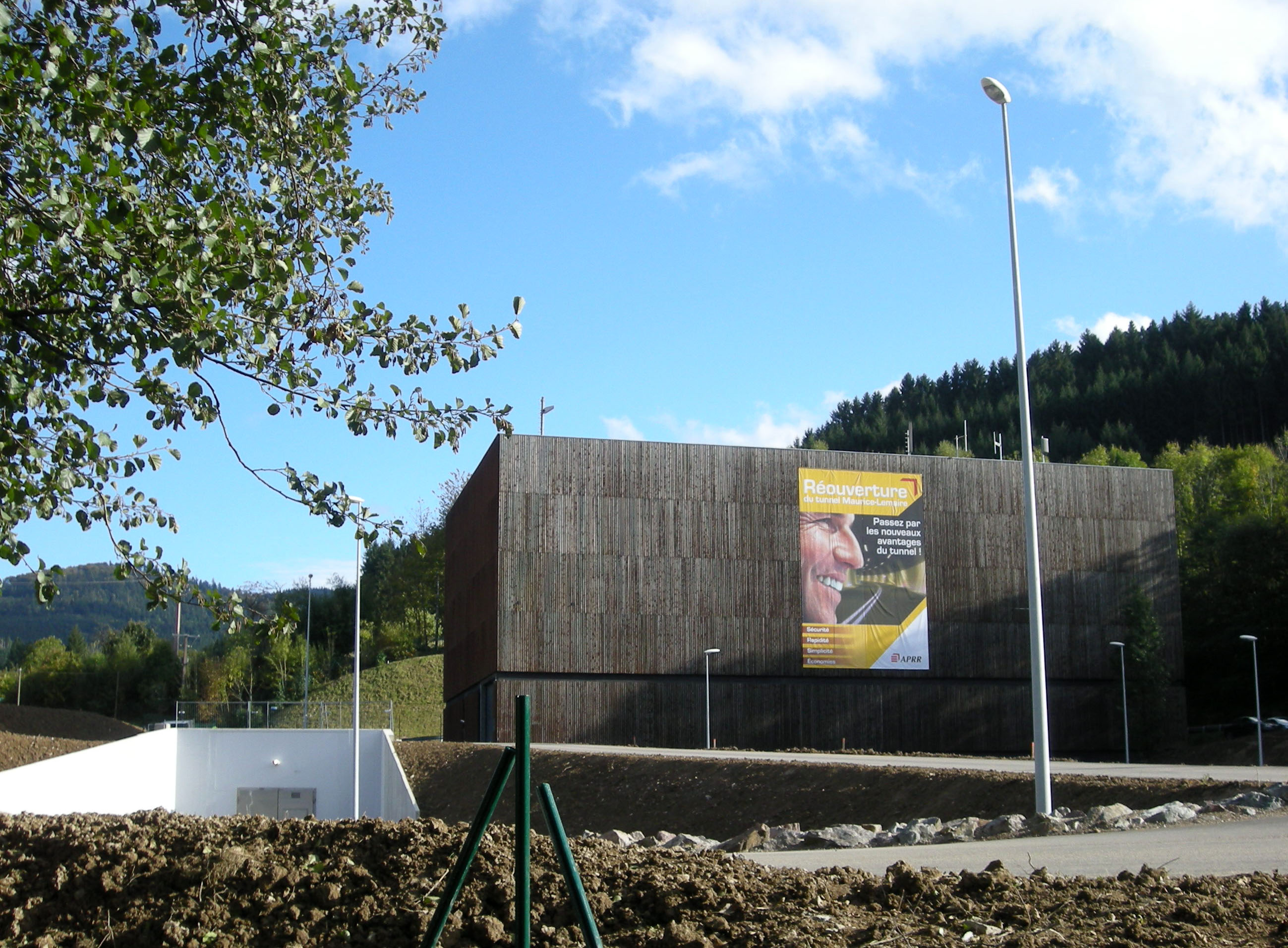 Entrance of the Maurice Lemaire Tunnel (near Lusse, Vosges)